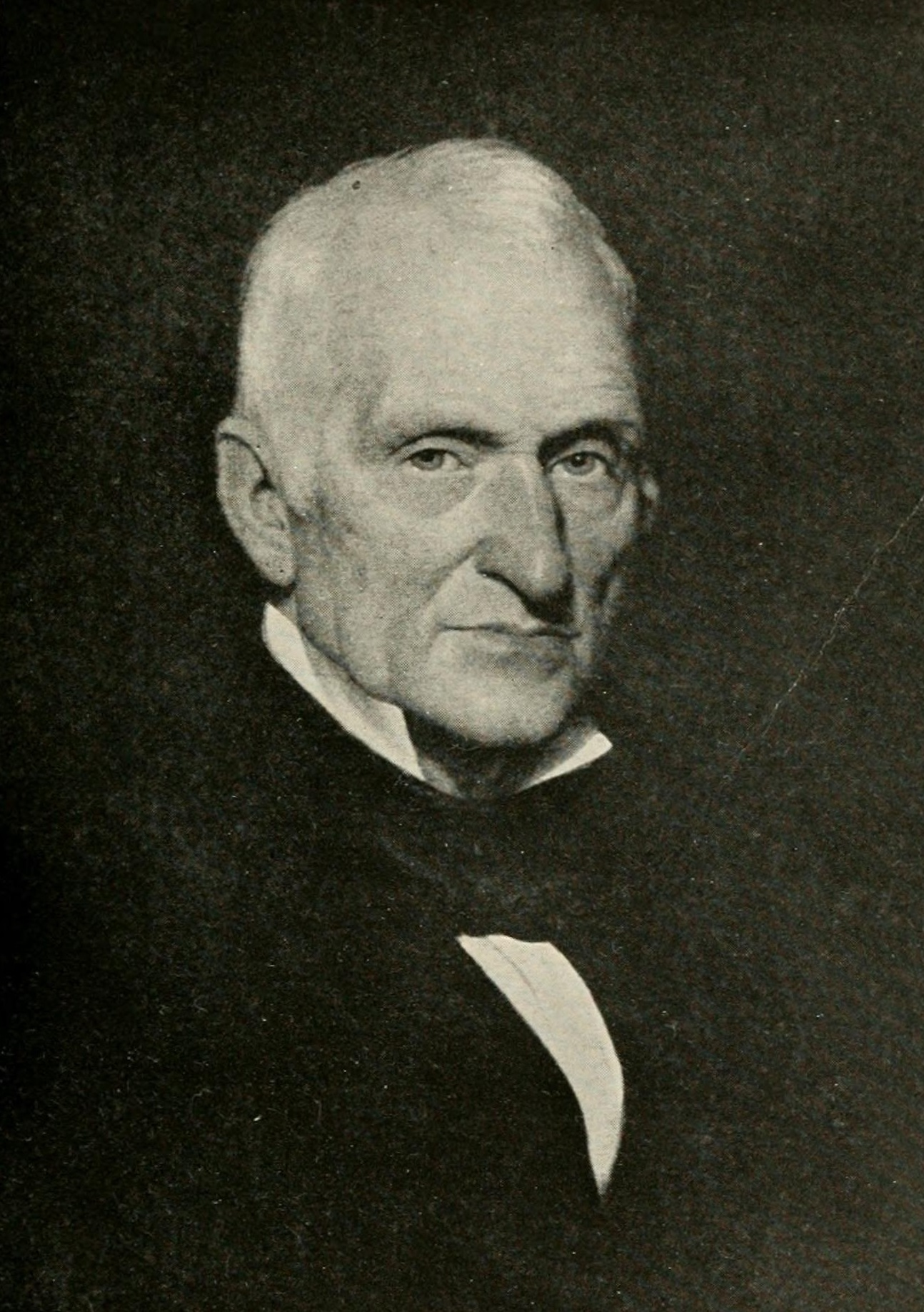 Samuel Hoar, Massachusetts Congressman.